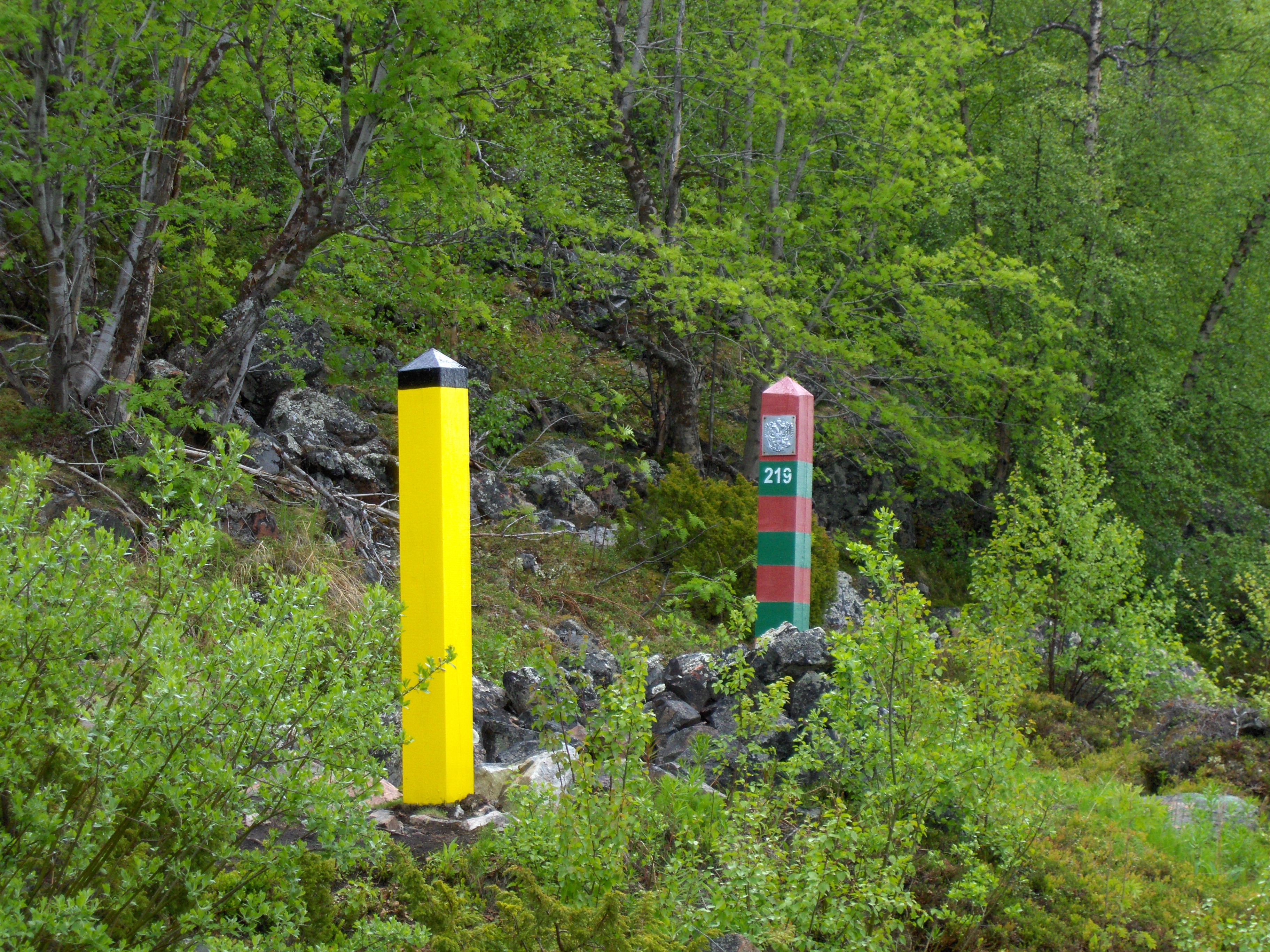 Border posts on the border between Norway and Russia not far from Elvenes near Kirkenes in Norway, on the east bank of Paatsjoki River. The yellow post is Norwegian, the red and green is Russian. Original description: This is close to Elvernes just outside Kirkenes, Norway. It's very stupid to cross the border without permission because it cost you 5000 NOK.